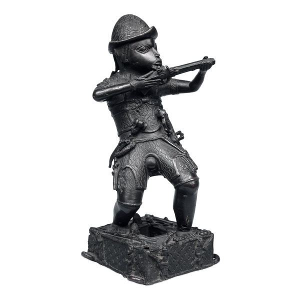 Bronze Figure Of Portuguese Soldier made in 15th century in Benin by Native African Culture. The figure is in British Museum.